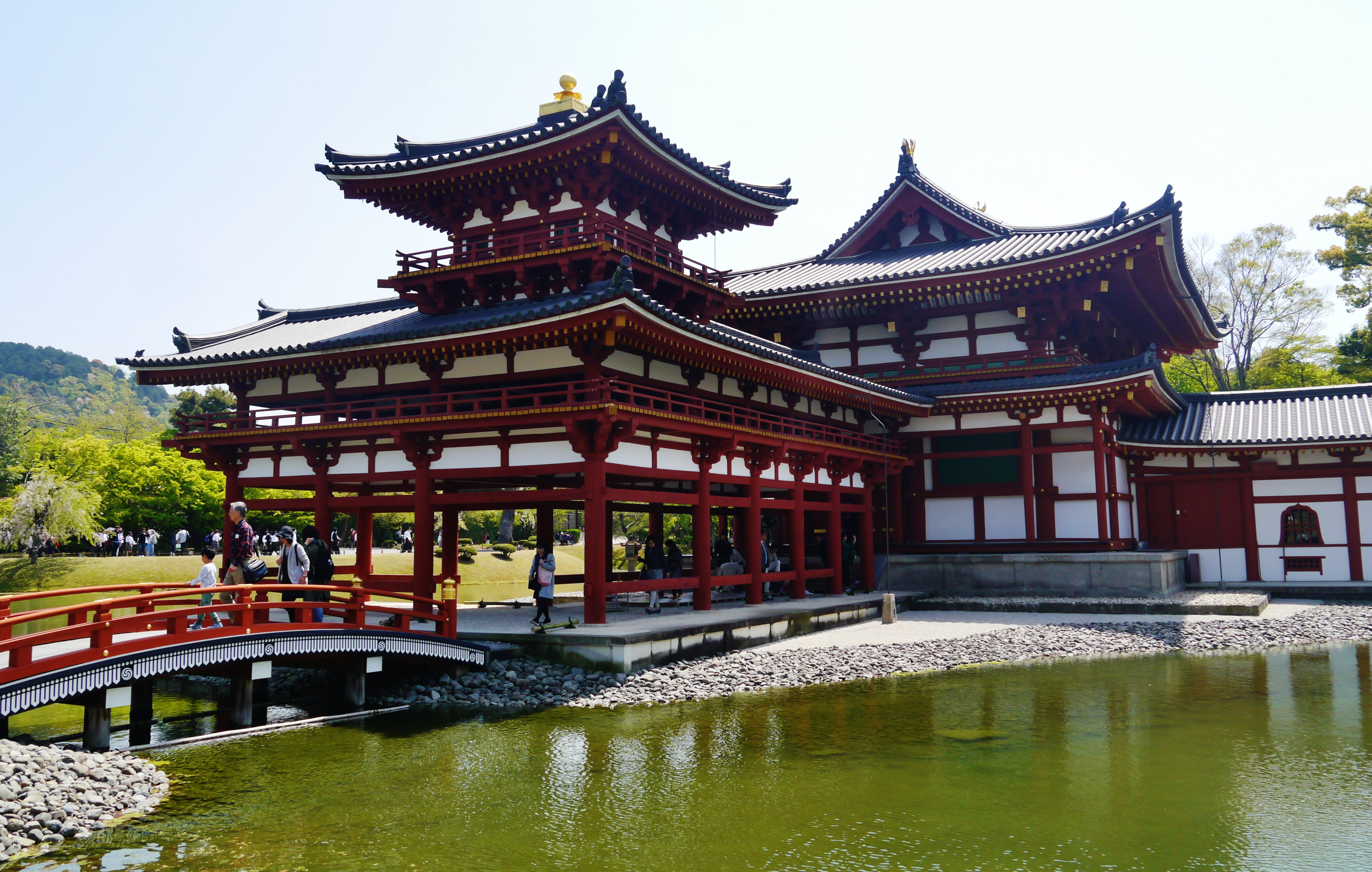 Phoenix Hall of the Byodo Temple, Uji, Kyoto Prefecture, Kinki Region, Japan